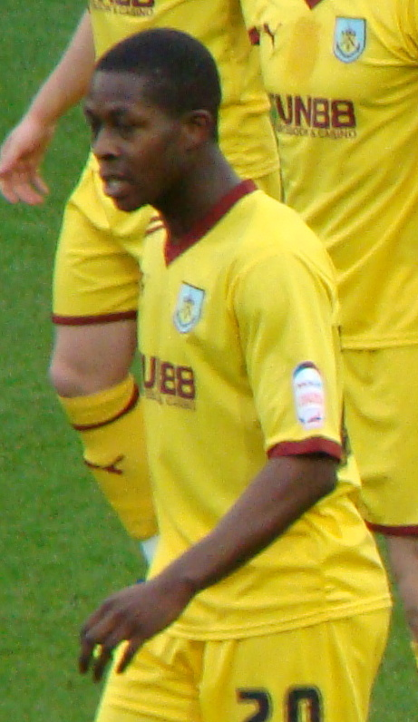 Cardiff v Burnley on 18/03/2012